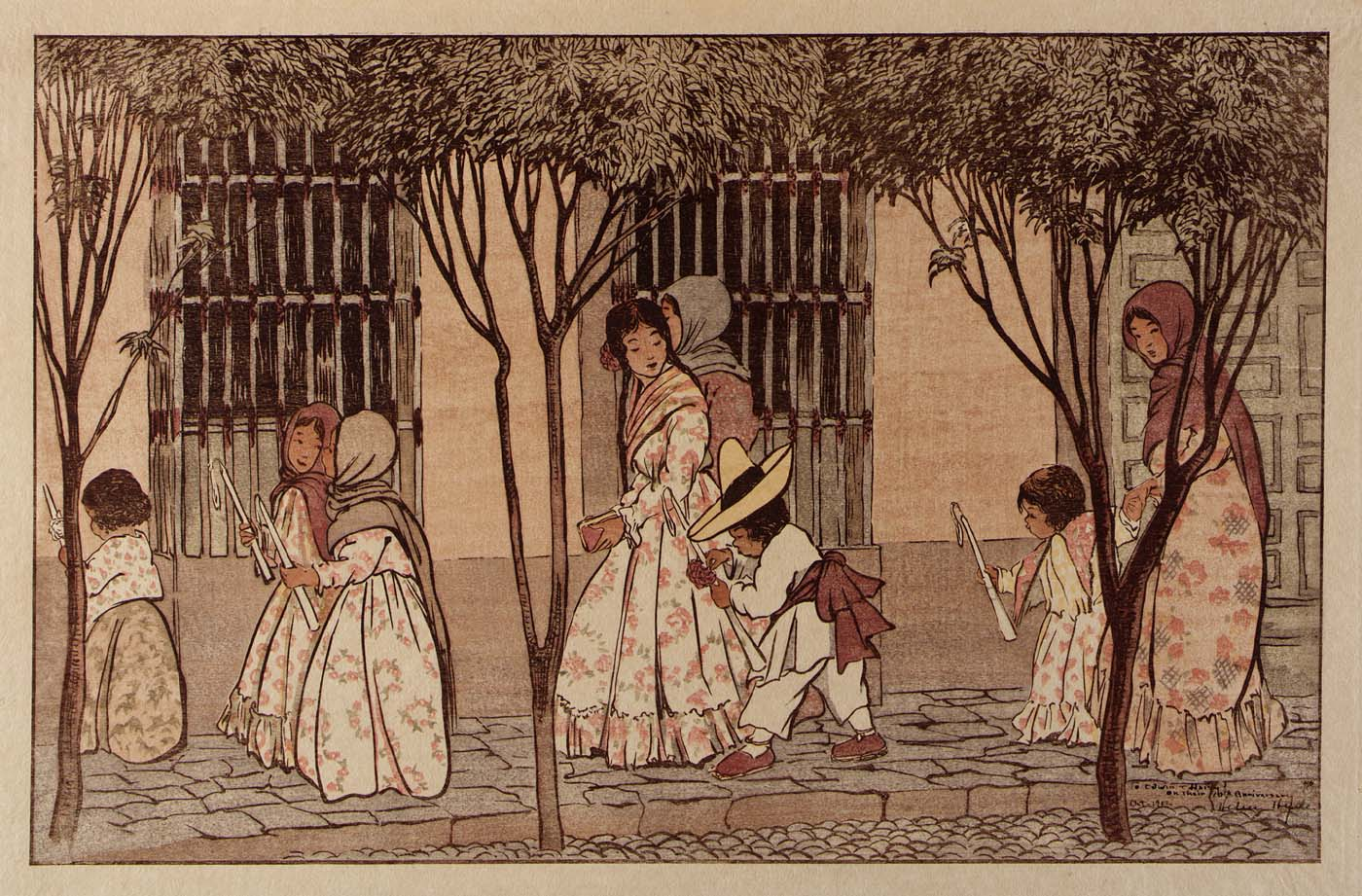 Sunday morning - 1912 - Helen Hyde